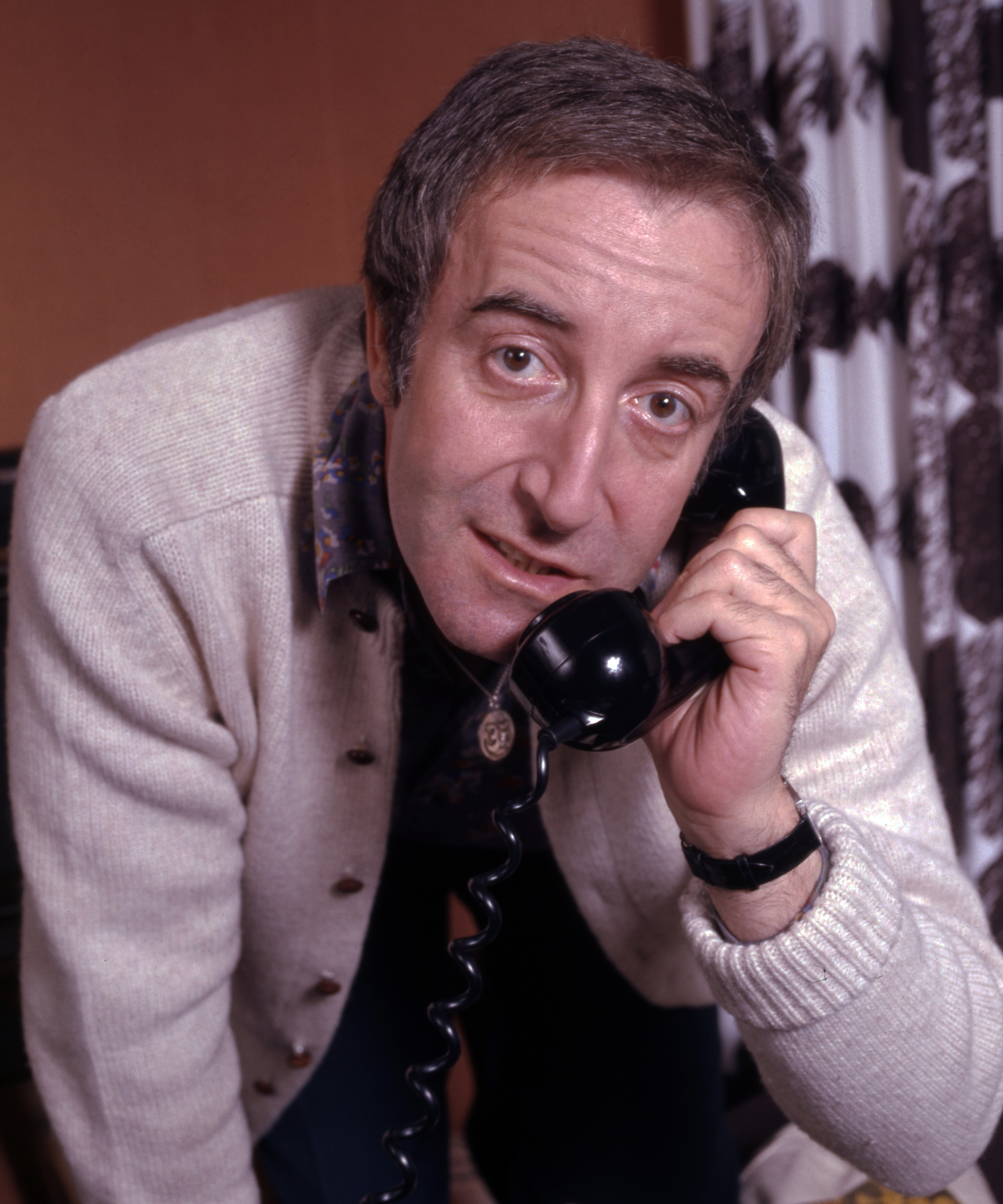 Peter Sellers at home in London